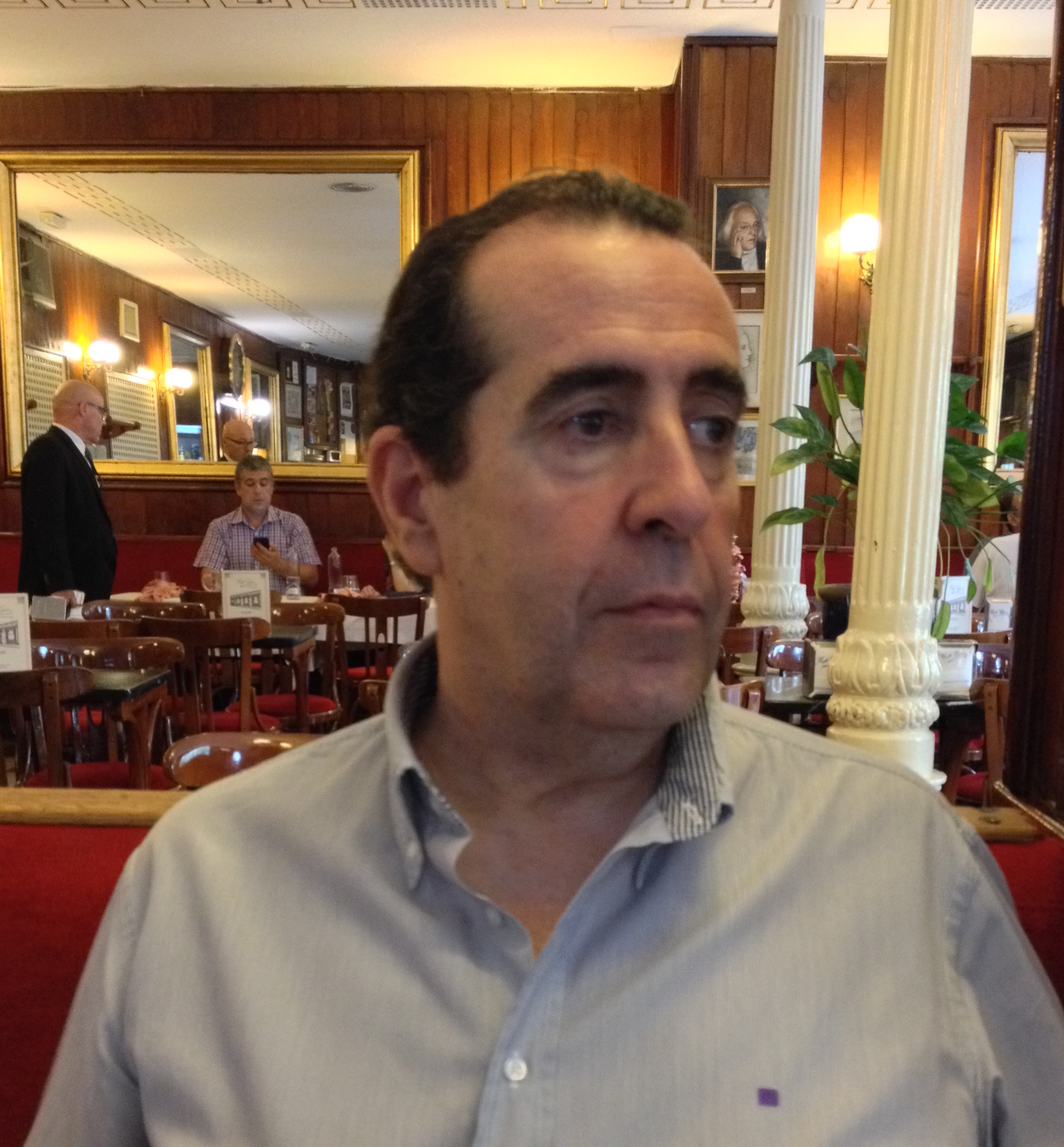 Carlos de Tomás, Café Gijón, Madrid